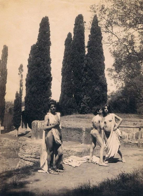 Wilhelm von Plüschow (1852-1930). Draped nudes near the ruins at Villa Adriana, Tivoli. Catalogue # 7935. Stamped.